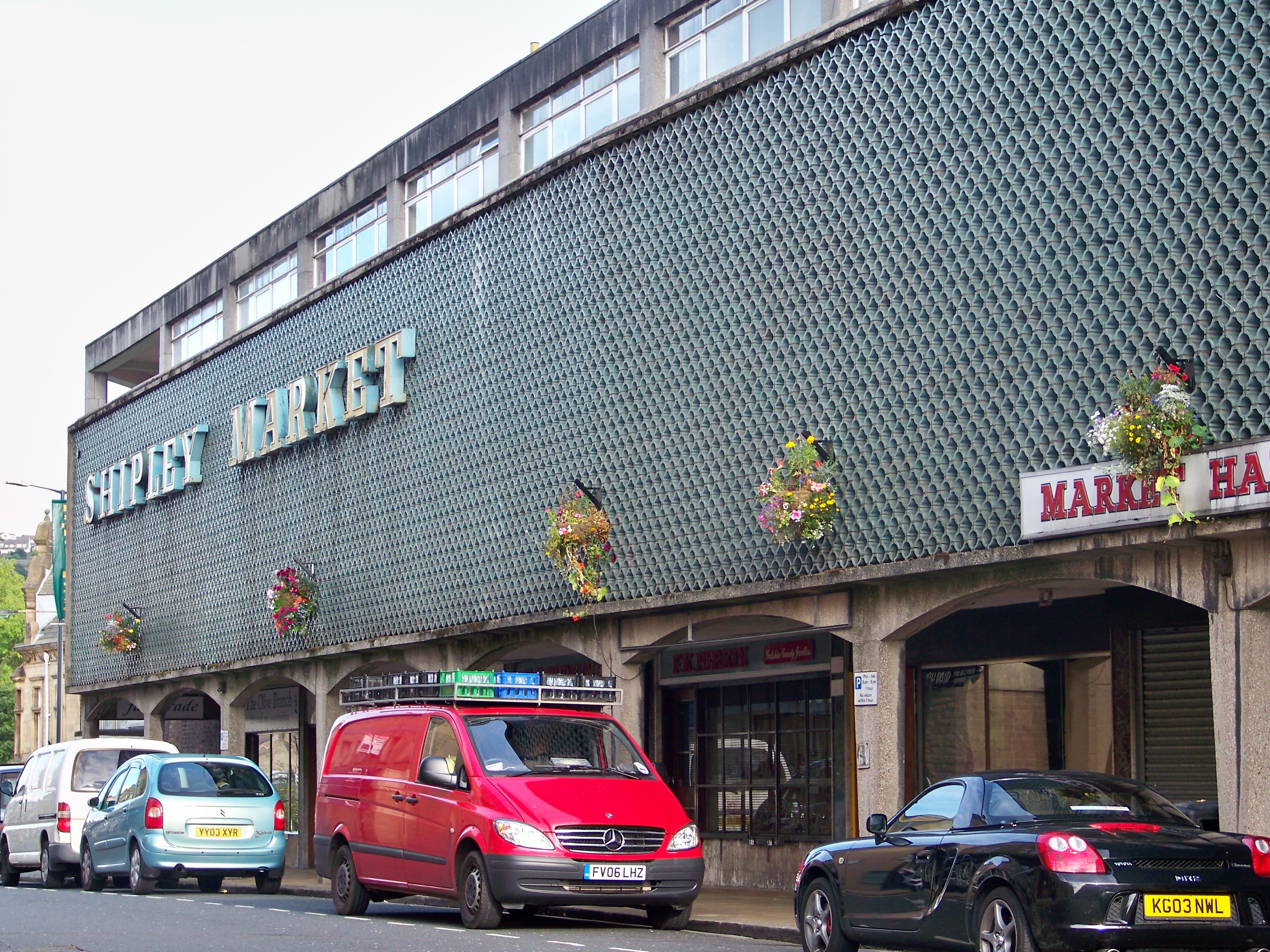 The rear of Shipley market hall, Shipley, Bradford, West Yorkshire, England. Taken on the Evening of Wednesday 5th August 2009.